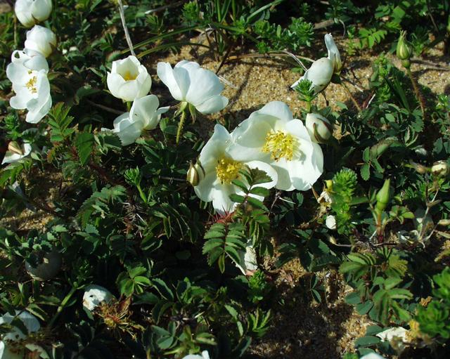 (en) Rosa pimpinellifolia, a photography originating of the internet site The accord of the autor, H. Brisse, is here. (fr) Rosa pimpinellifolia, une photographie issue du site internet L'accord de l'auteur, H. Brisse, se situe ici.